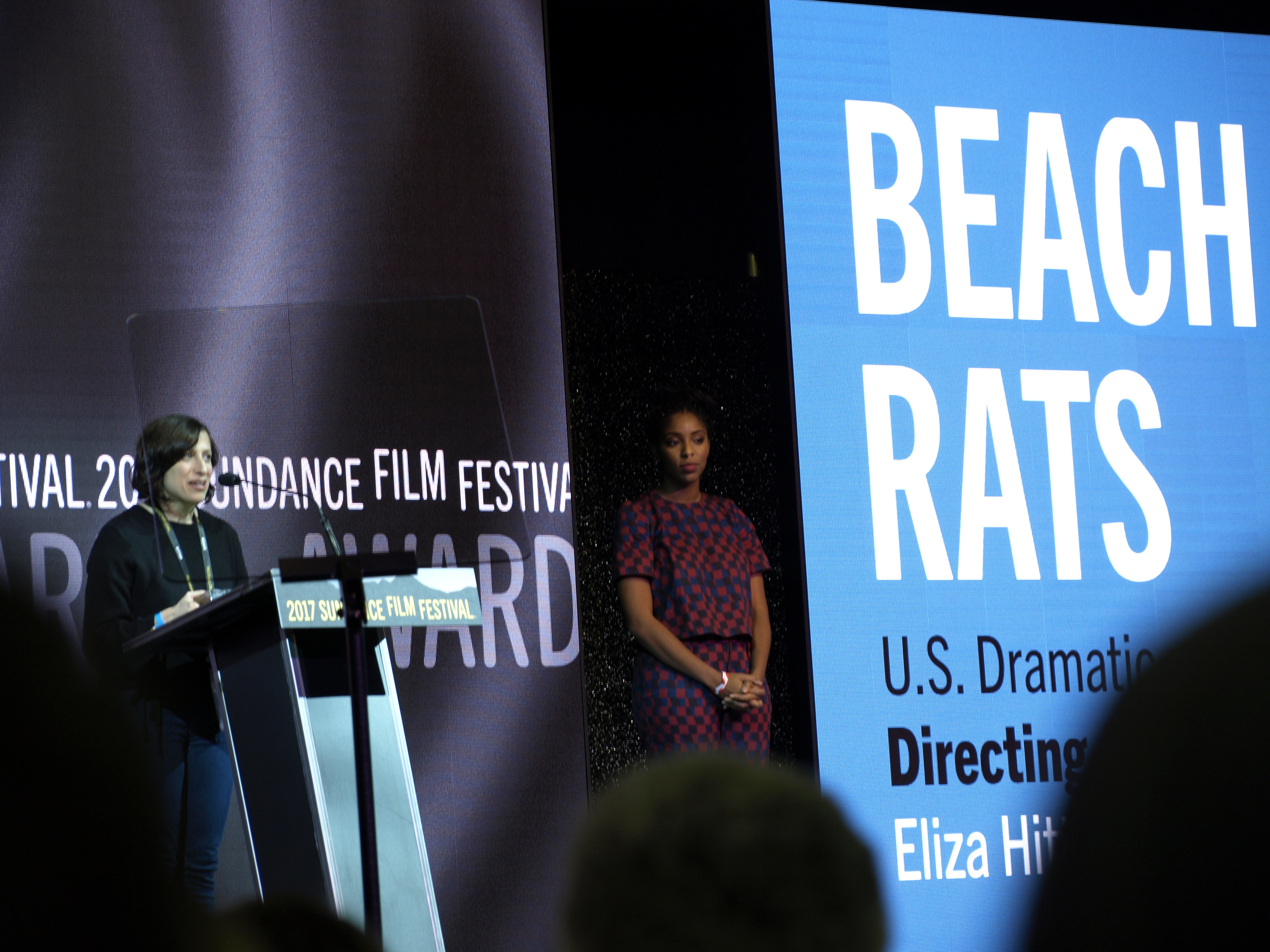 "Beach Rats" won The Directing Award: U.S. Dramatic at Sundance 2017, Park City UT